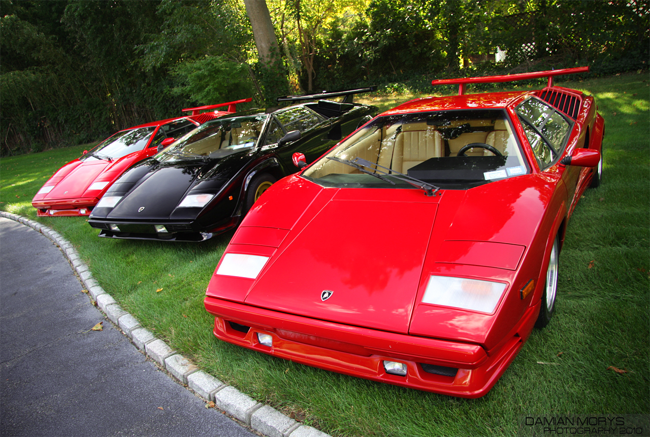 Countach Trio